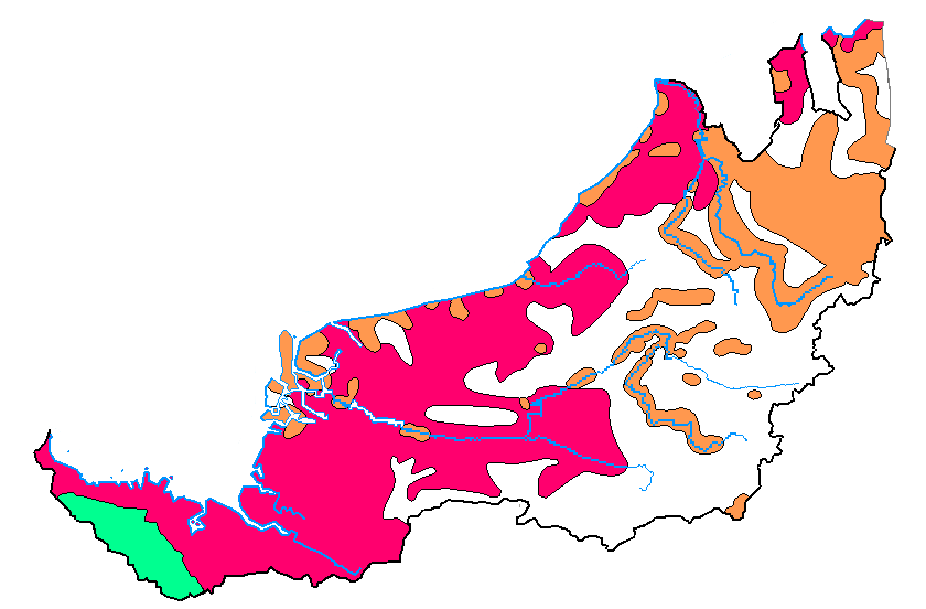 Distribution of Sarawak Families Languages. Malayic Bornean Land Dayak Areas with multiple languages